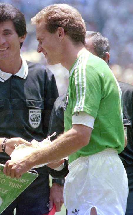 Karl Rummenigge before the final of 1986-06-29